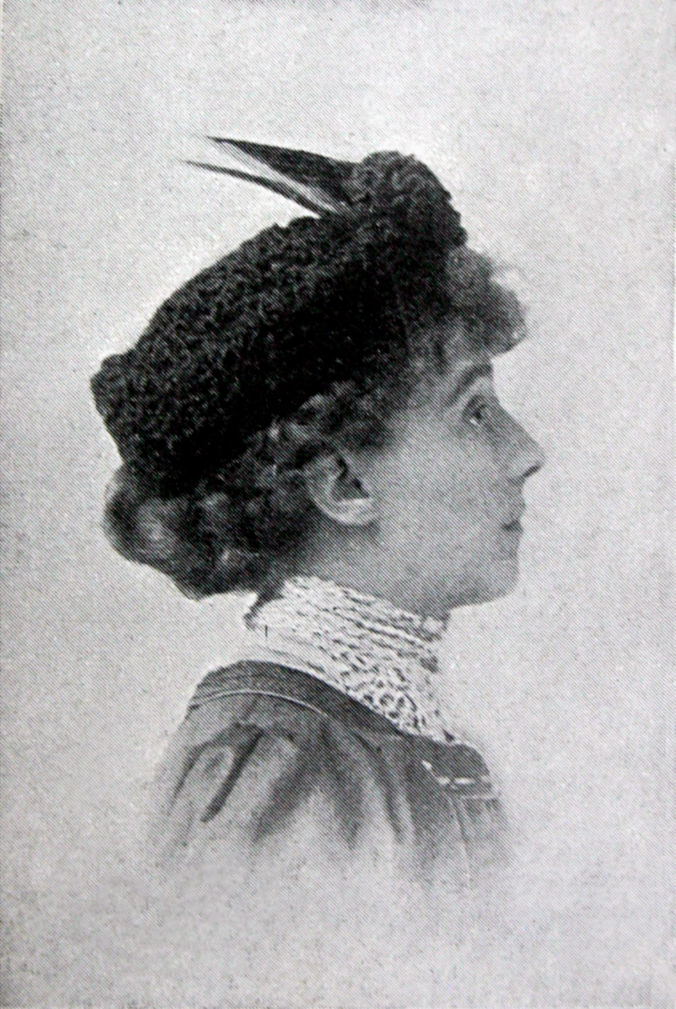 Photo portrait of Helen Maud Holt, Mrs Herbert Beerbohm Tree